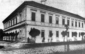 The old building of the pre-high school